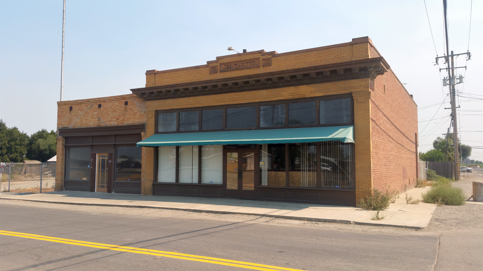 The J. Brichetto Building at 5362 West G Street in Banta, California. The brick building was constructed by local landowner Giuseppe Brichetto in 1911.